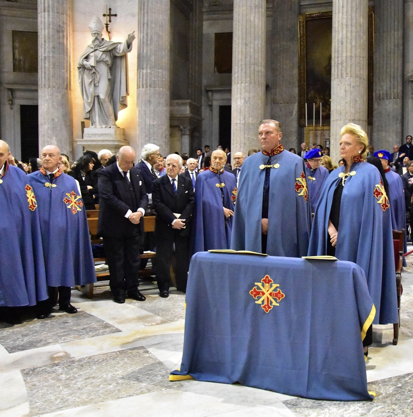 Prince Carlo and his elder sister Princess Beatrice at mass at the Royal Pontifical Basilica of Saint Francis of Paola